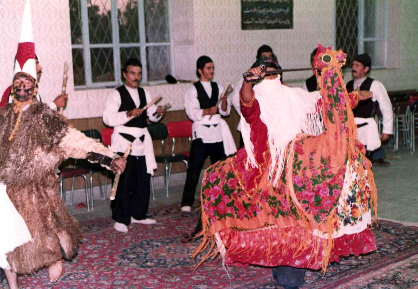 Siah-Bazi, also known as Siyah-Bazi is a type of Iranian folk performing art that features a blackface, mischievous and forthright harlequin that does improvisations to stir laughter.